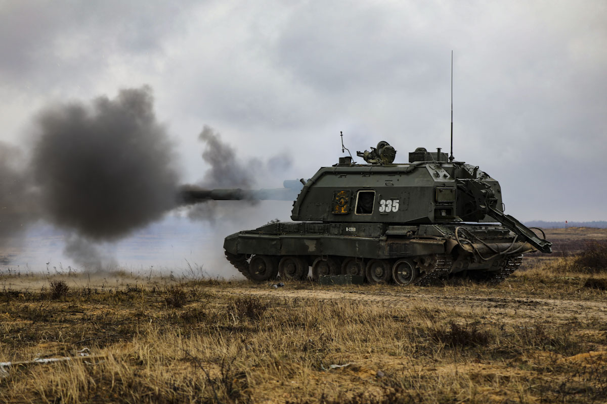 15th Guards Motorized Rifle Regiment's artillery exercise with 2S19 and 2S19M1 Msta-S.